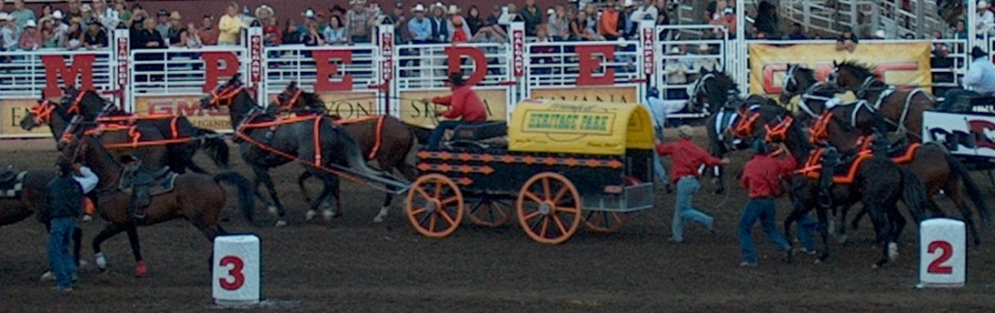 Photo taken by DrHaggis on 16July06 at the finals of the Chuckwagon races at the Calgary Stampede